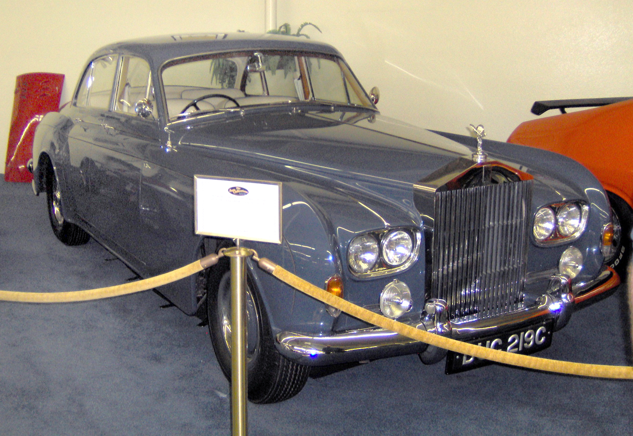 1965 Rolls-Royce Silver Cloud III James Young Saloon